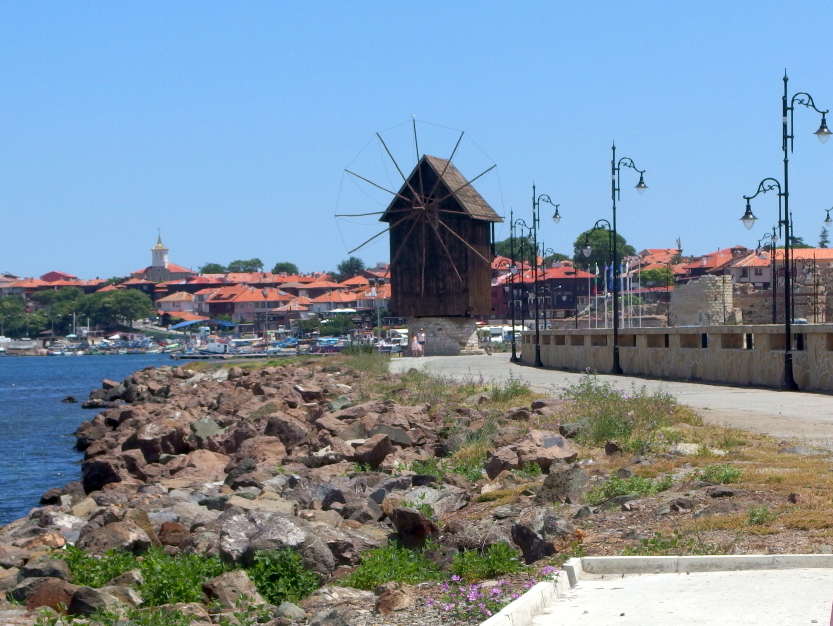 2014-06-12 in Nesebar.